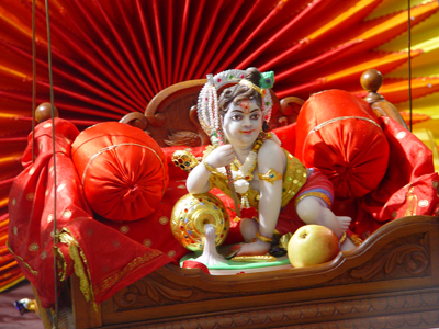 Krishna Janmastami celebrated in Swaminarayan temple, London (Streatham - ISSO)